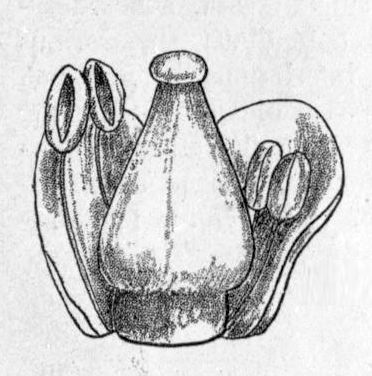 Lysichiton camtschatcensis (fragment), flower with two removed tepals.